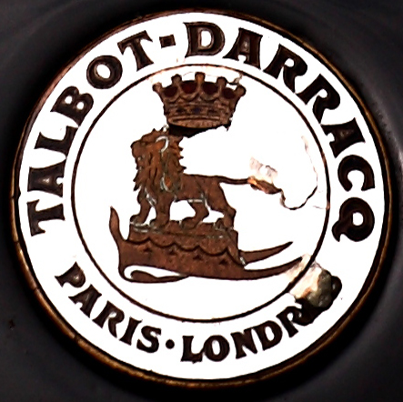 The logo on the top of the radiator of a 1932 sports-racing car